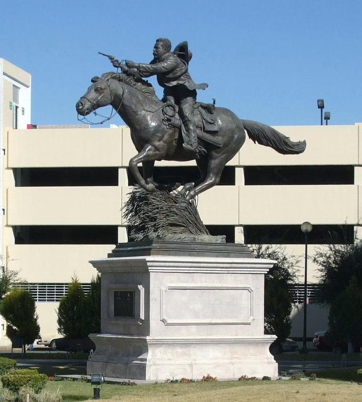 Equestrian bronze statue of Pancho Villa in the Plaza de la Revolucion in Chihuahua, CH Mexico.